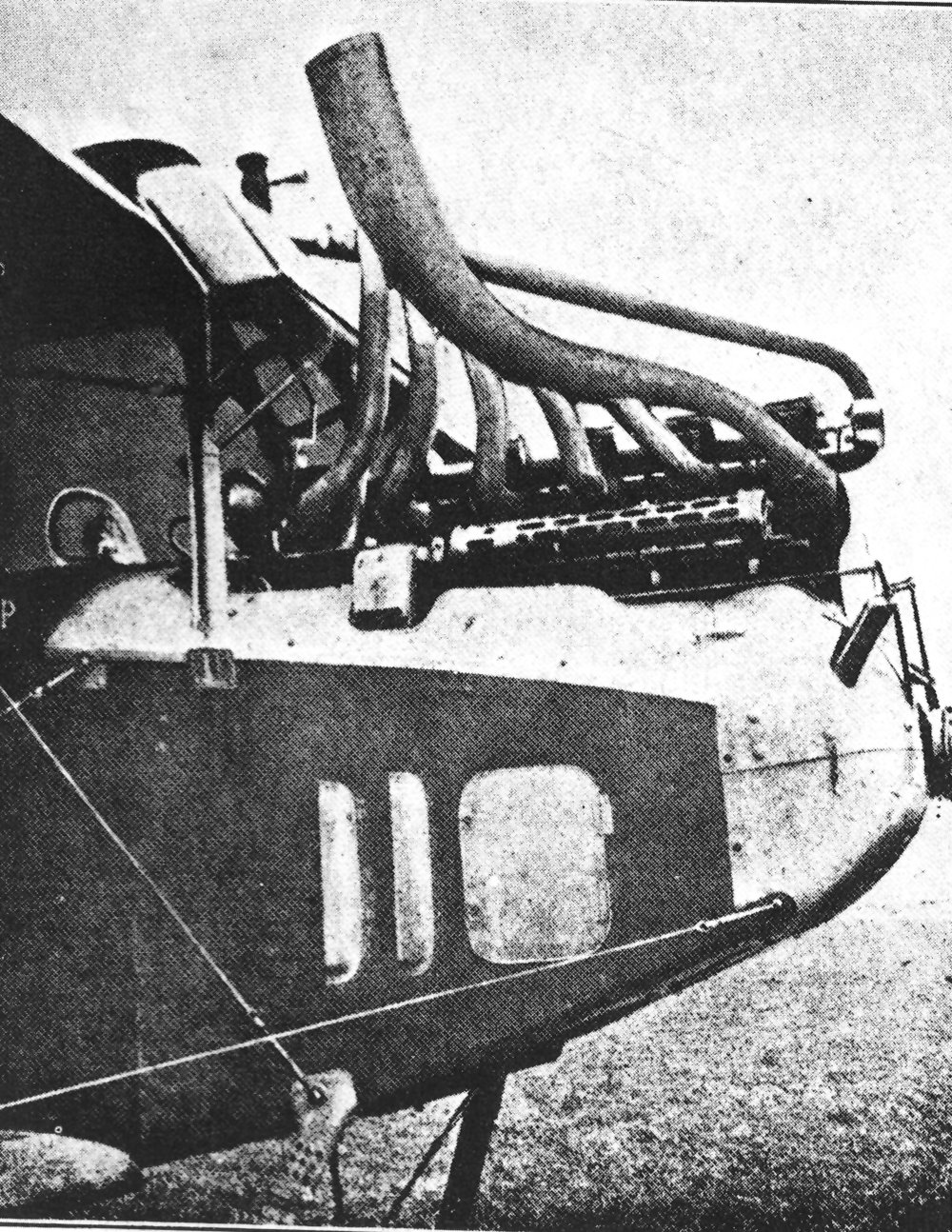 View of synchronized machine gun on Albatros C.III